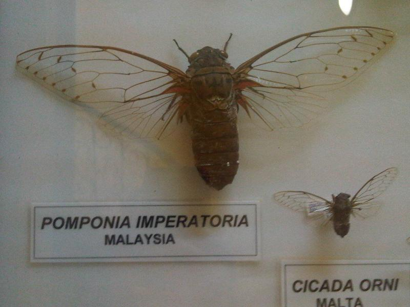 Megapomponia imperatoria - syn: Pomponia imperatoria (left) at the National Museum of Natural History, Vilhena Palace, Republic of Malta.